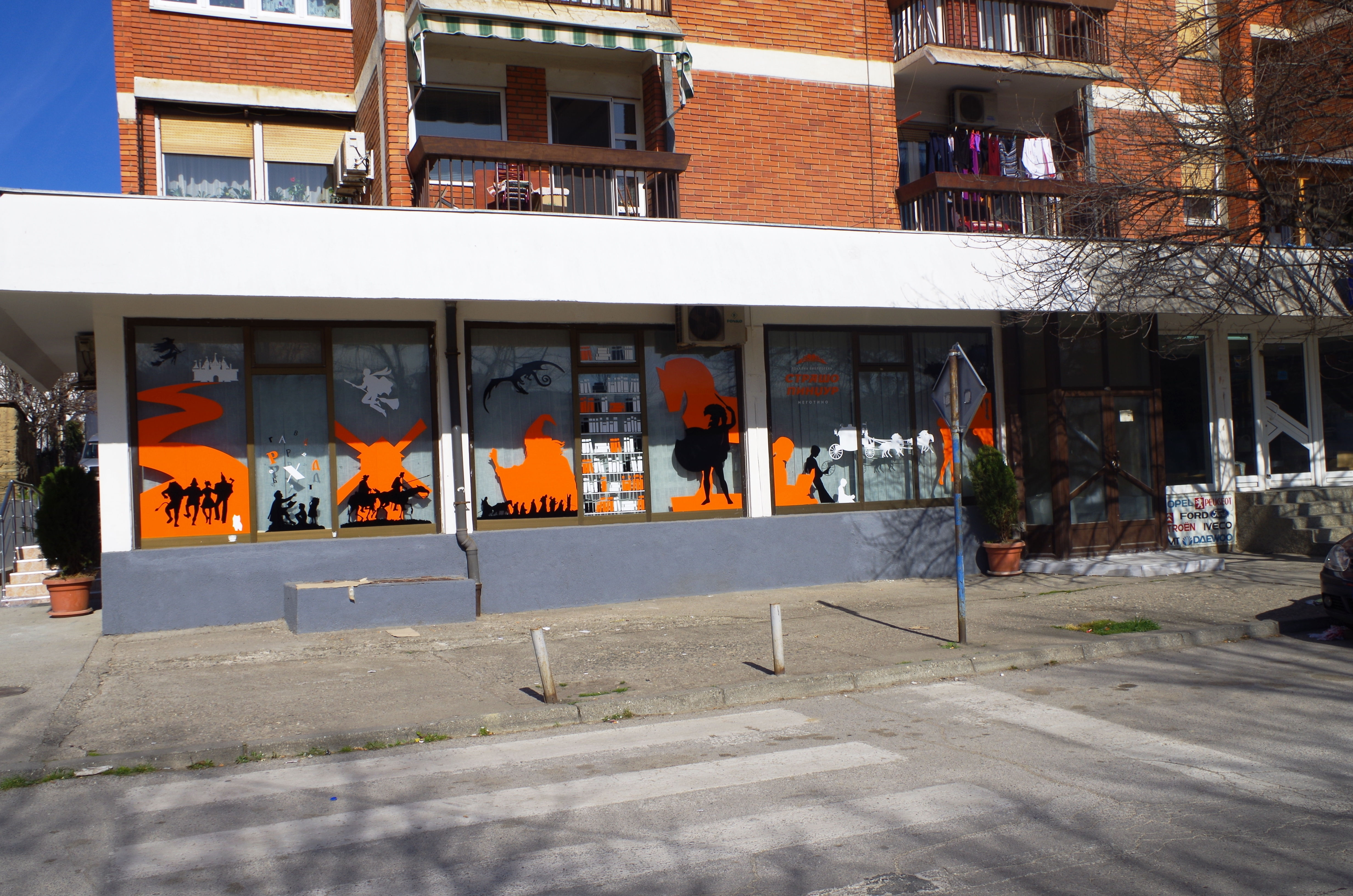 City library in Negotino